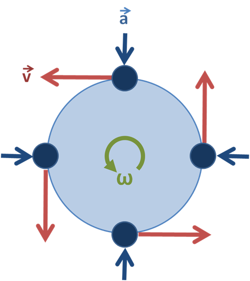 Velocity and acceleration in uniform circular motion